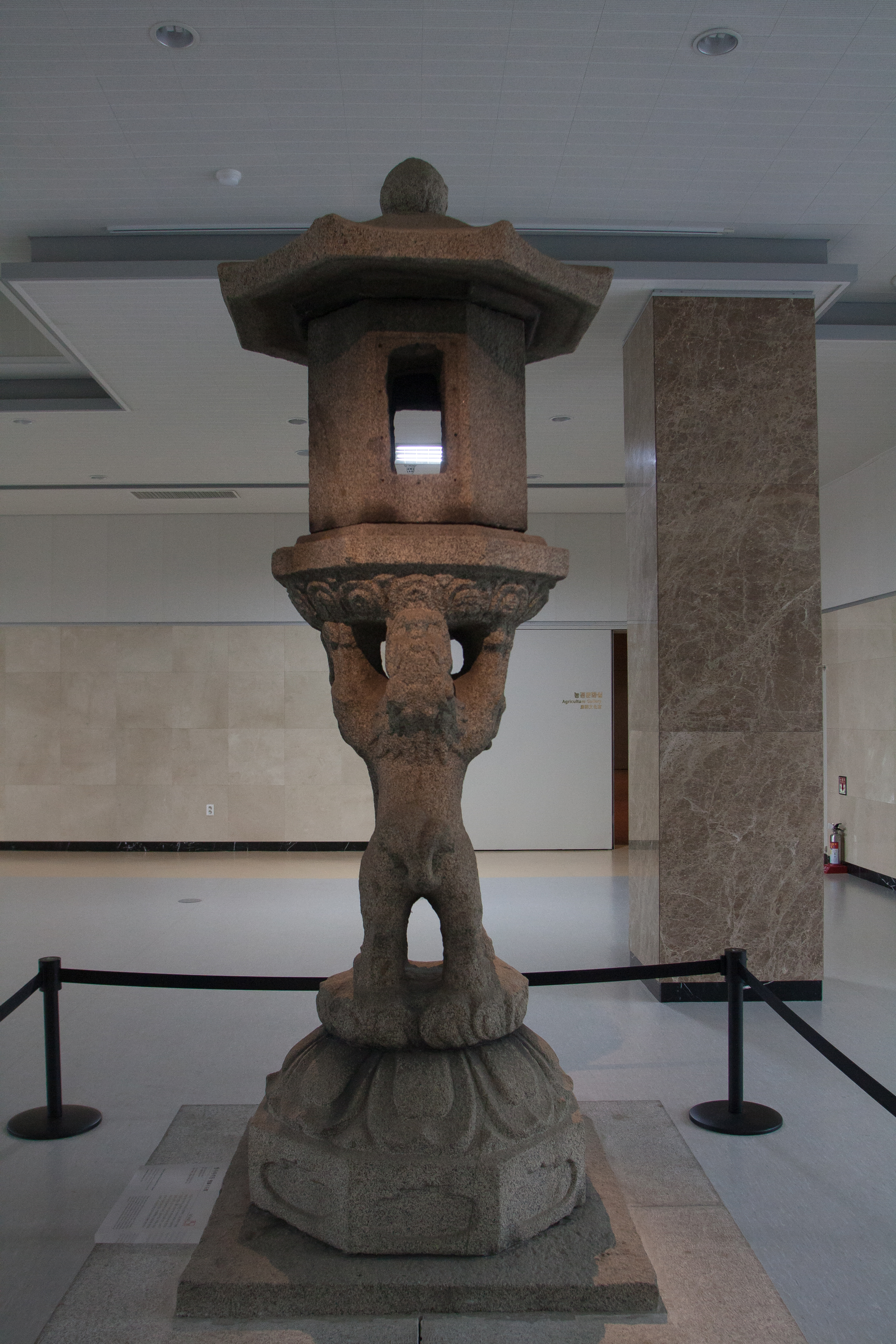 Pair lions stone lanterns of Jungheungsanseong Fortress in Gwangyang, Korea